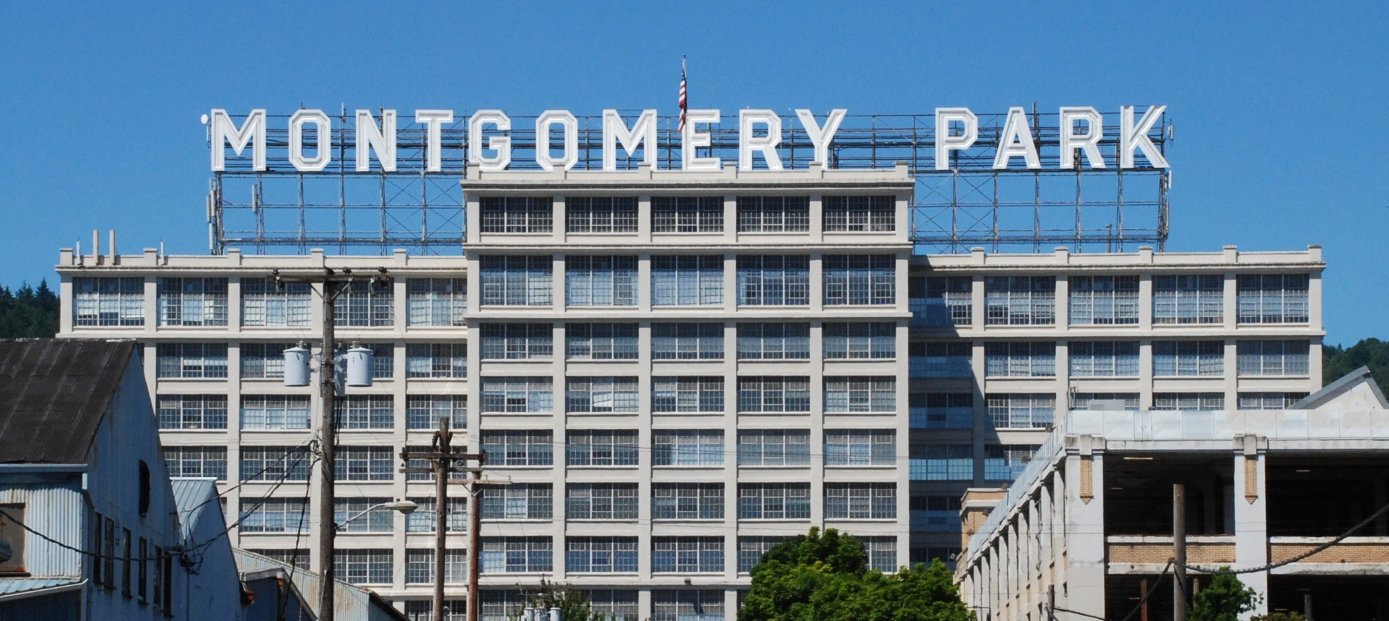 The east facade of Montgomery Park, in Portland, Oregon, a former Montgomery Ward catalog warehouse, listed on the National Register of Historic Places. It was refitted in the mid-1980s for use for offices, banquets and trade shows, and was given its current name. The huge sign on its roof was altered at that time, with "W A R D" changed to "P A R K".